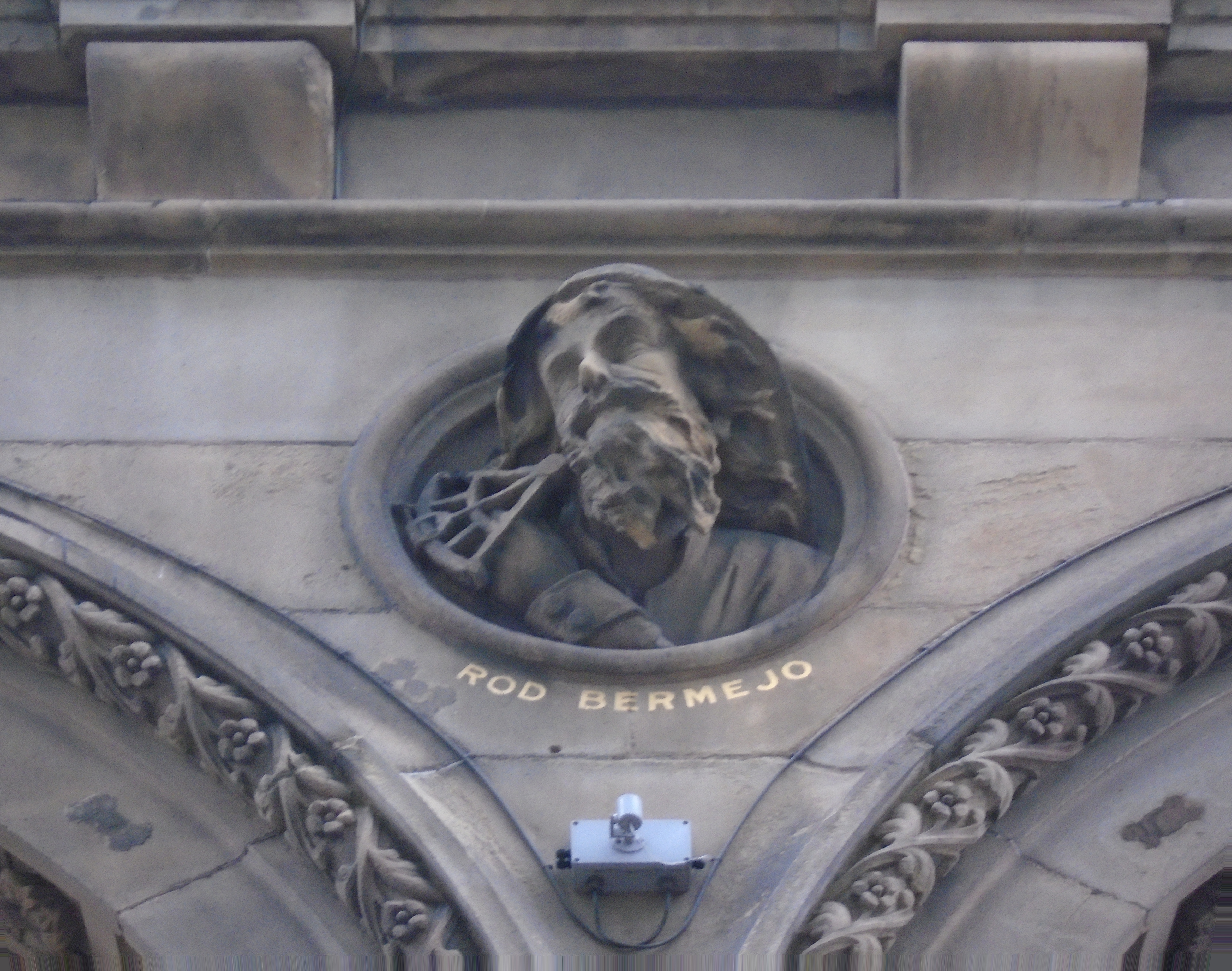 Relief of Rodrigo de Triana, reputedly the lookout on Columbus' ship who famously first sighted America.